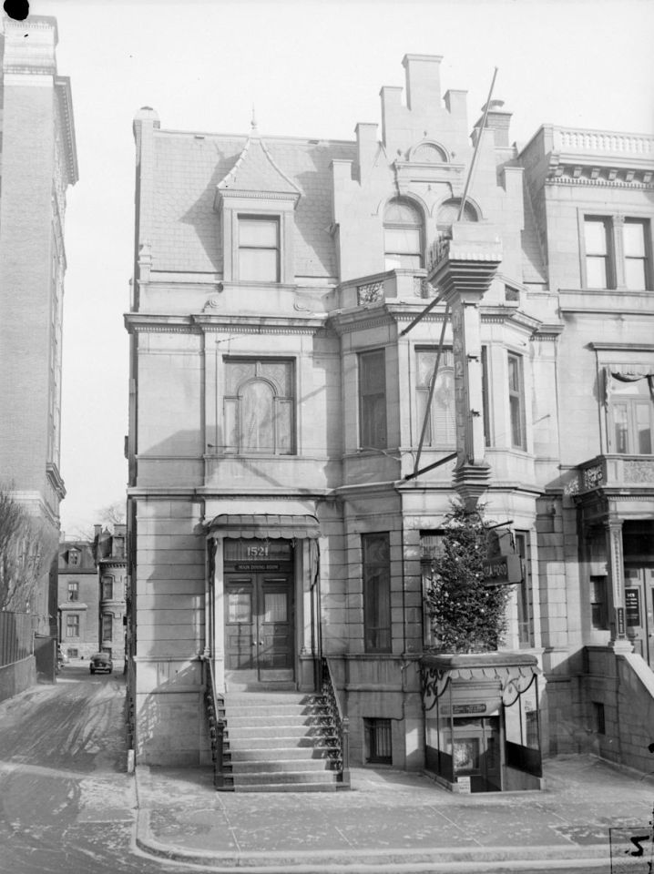 We see the Café Martin on de la Montagn Street in Montreal.